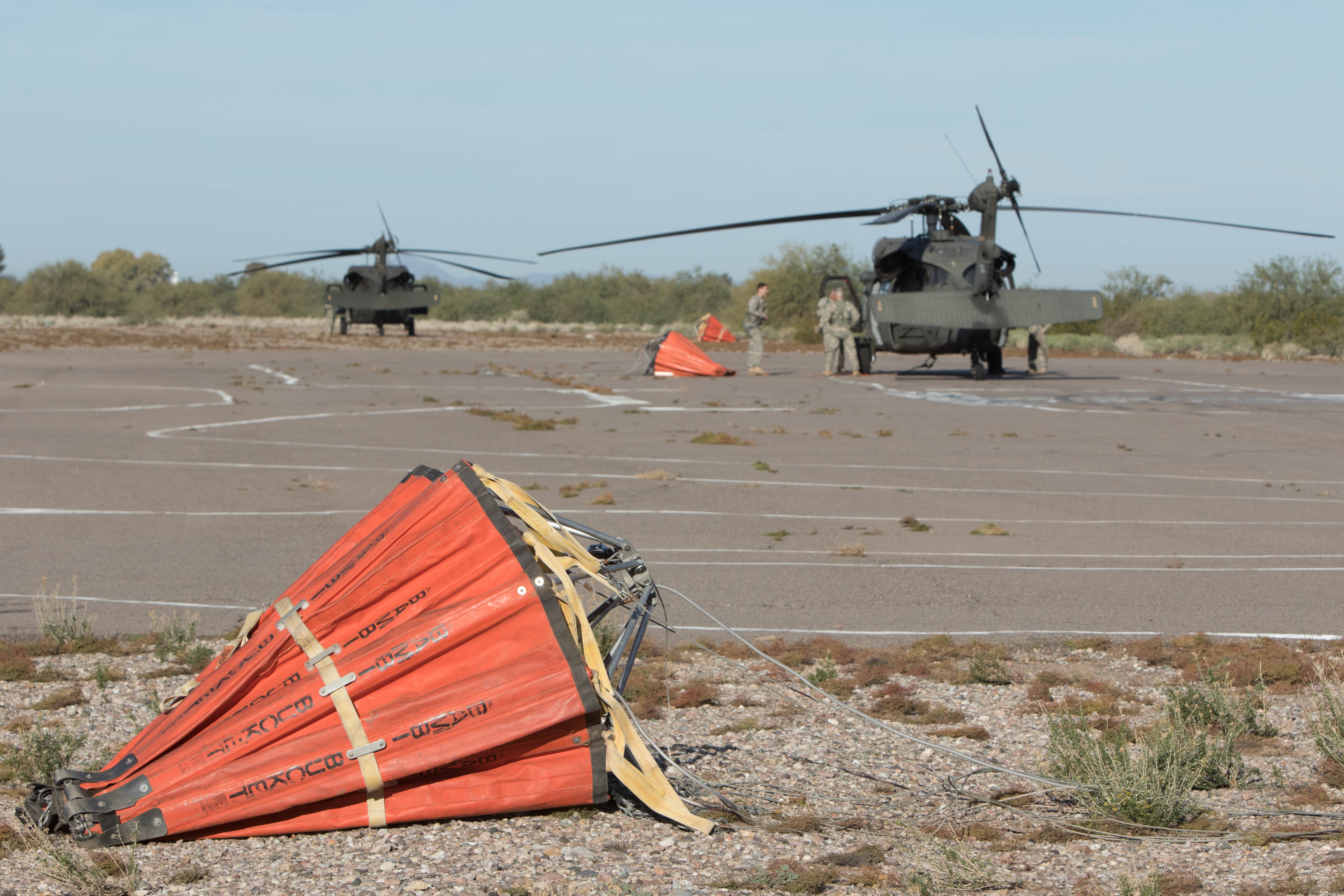 Bambi Buckets used in aerial firefighting lay on a landing strip, ready to be hauled into the air by Arizona Army National Guard UH-60 Black Hawk helicopters belonging to A Company, 2-285th Assault Helicopter Battalion Dec. 12, 2014, at Rittenhouse Army Heliport in Queen Creek, Ariz. The Guard members used the buckets, each of which capable of transporting 530 gallons of water and releasing it onto a target, during their annual wildland firefighting training. (U.S. Army National Guard photo by Staff Sgt. Brian A. Barbour)